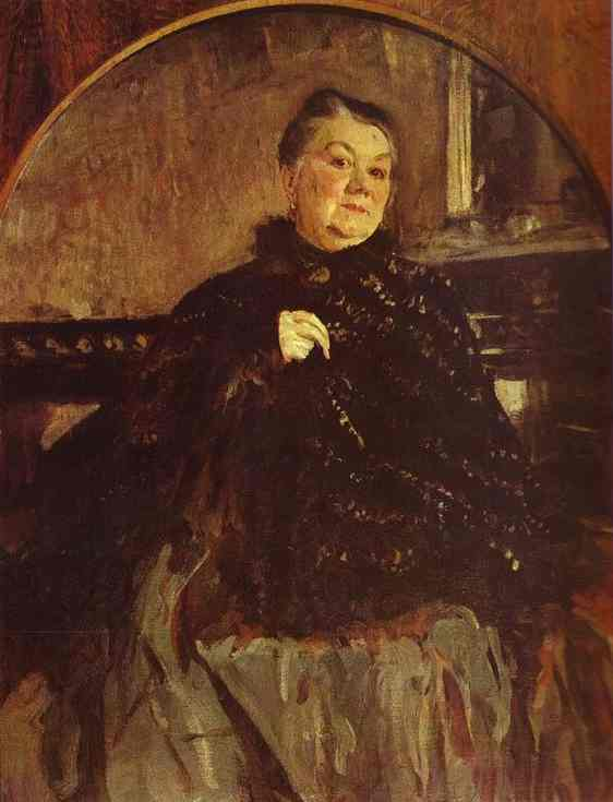 Portrait of the Actress Glikeria Fedotova. 1905. Oil on canvas. The Tretyakov Gallery, Moscow, Russia.